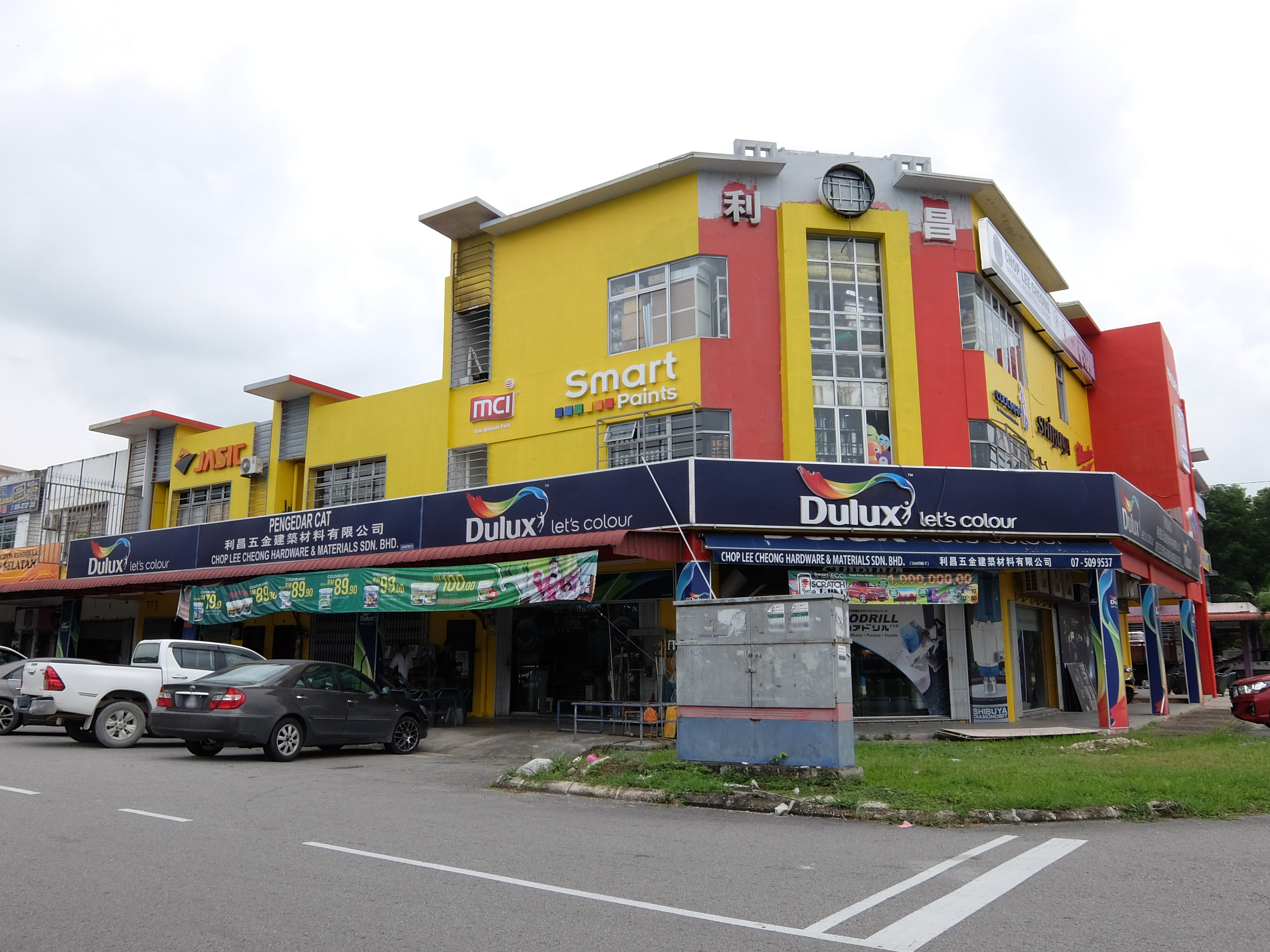 Chop Lee Cheong Hardware & Materials, Taman Nusantara, Gelang Patah, Iskandar Puteri, Johor Bahru, Johor, Malaysia